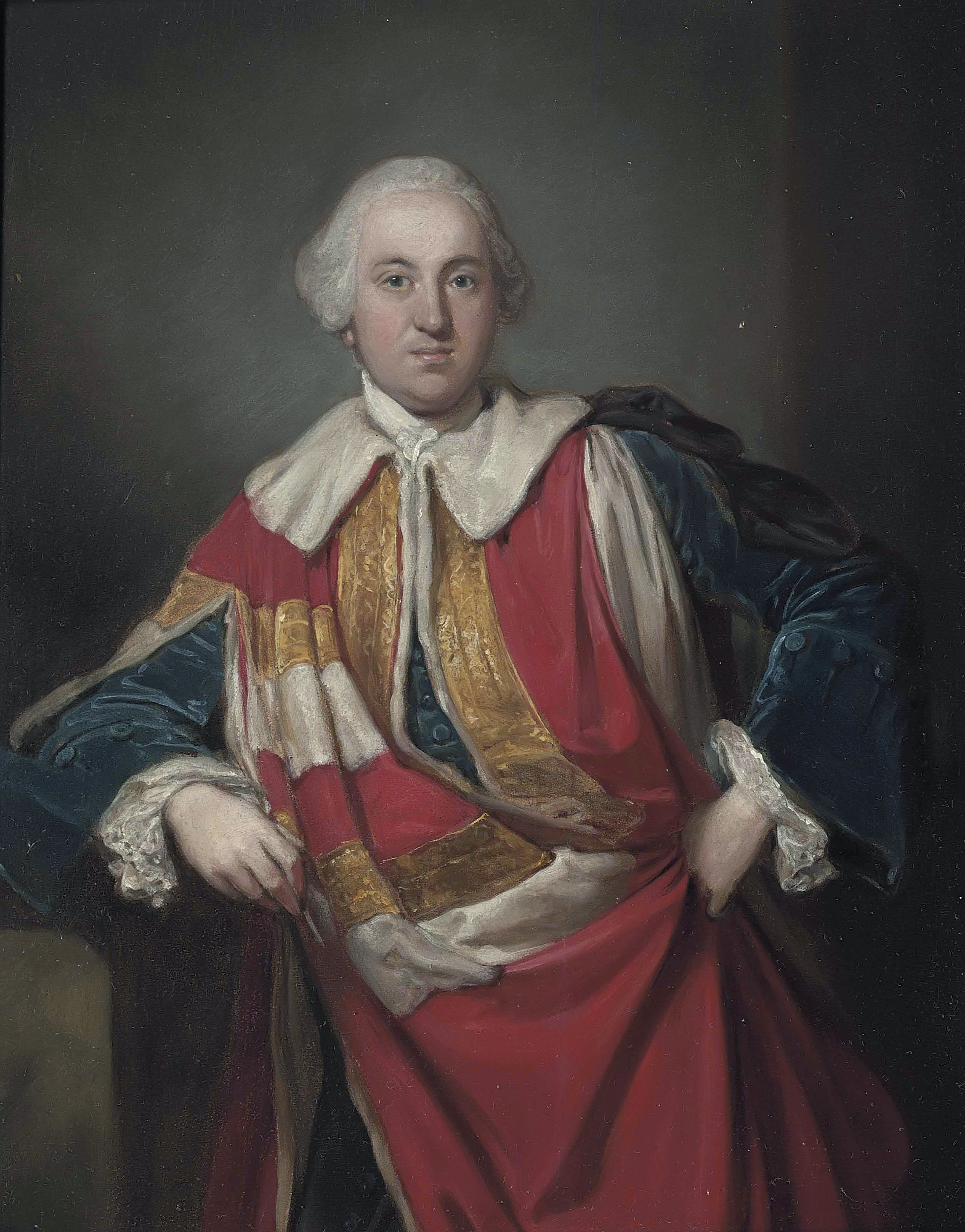 Richard, 2nd Baron Edgcumbe (1716-1761) oil on panel 25.4 x 20.3 cm variant of a larger portrait by Reynolds, which was destroyed by bombing in World War Two.